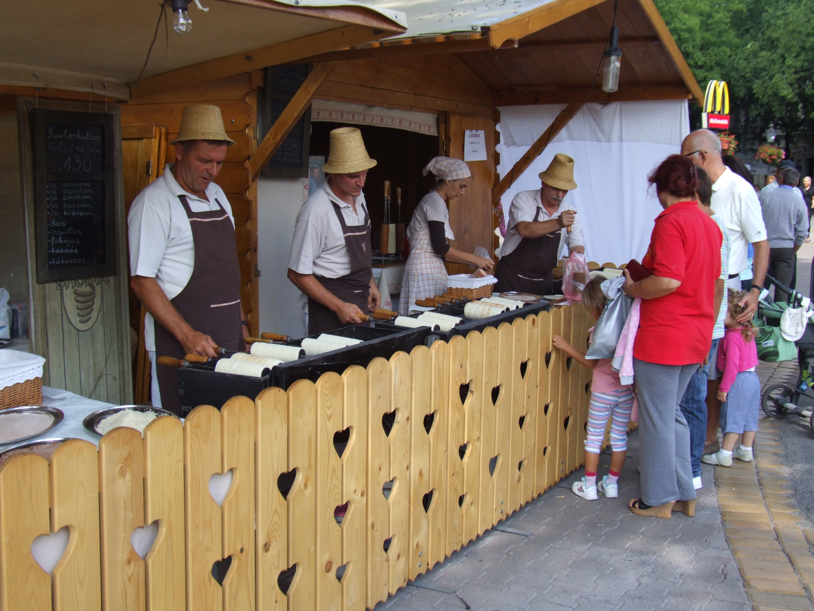 Kürtőskalács in Szabadka (Subotica), Vojvodina